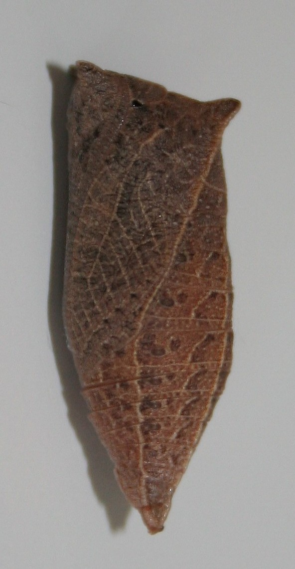 A Zebra Swallowtail (Eurytides marcellus) chrysalis